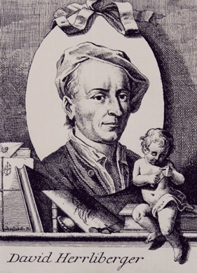 Portrait of David Herrliberger (1697-1777), Swiss engraver